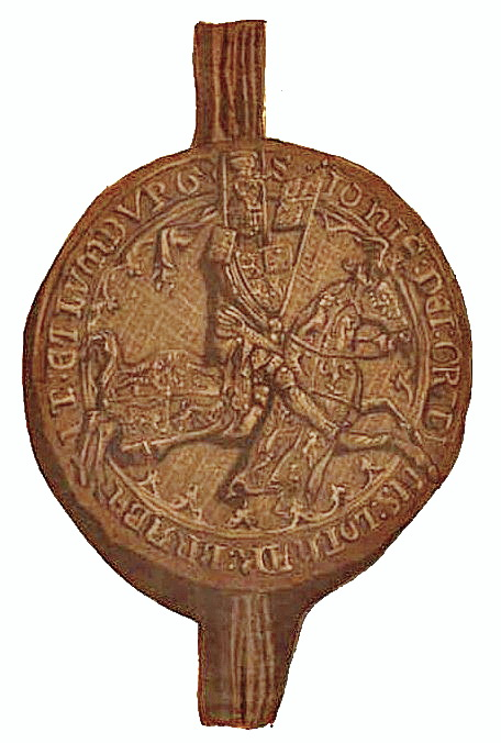 John III of Brabant